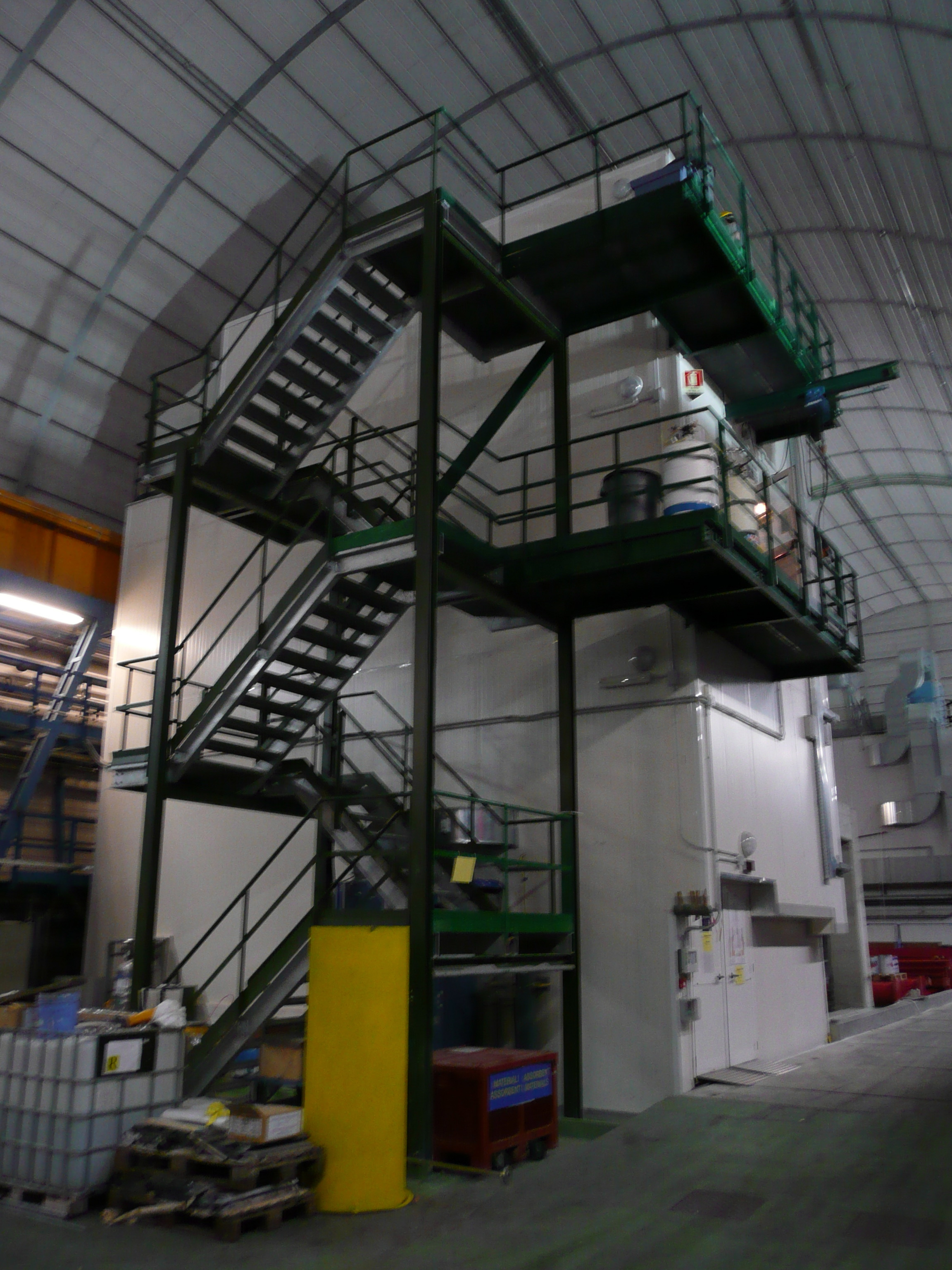 Photo: Stuart Ingleby 2008